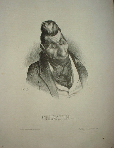 charivari